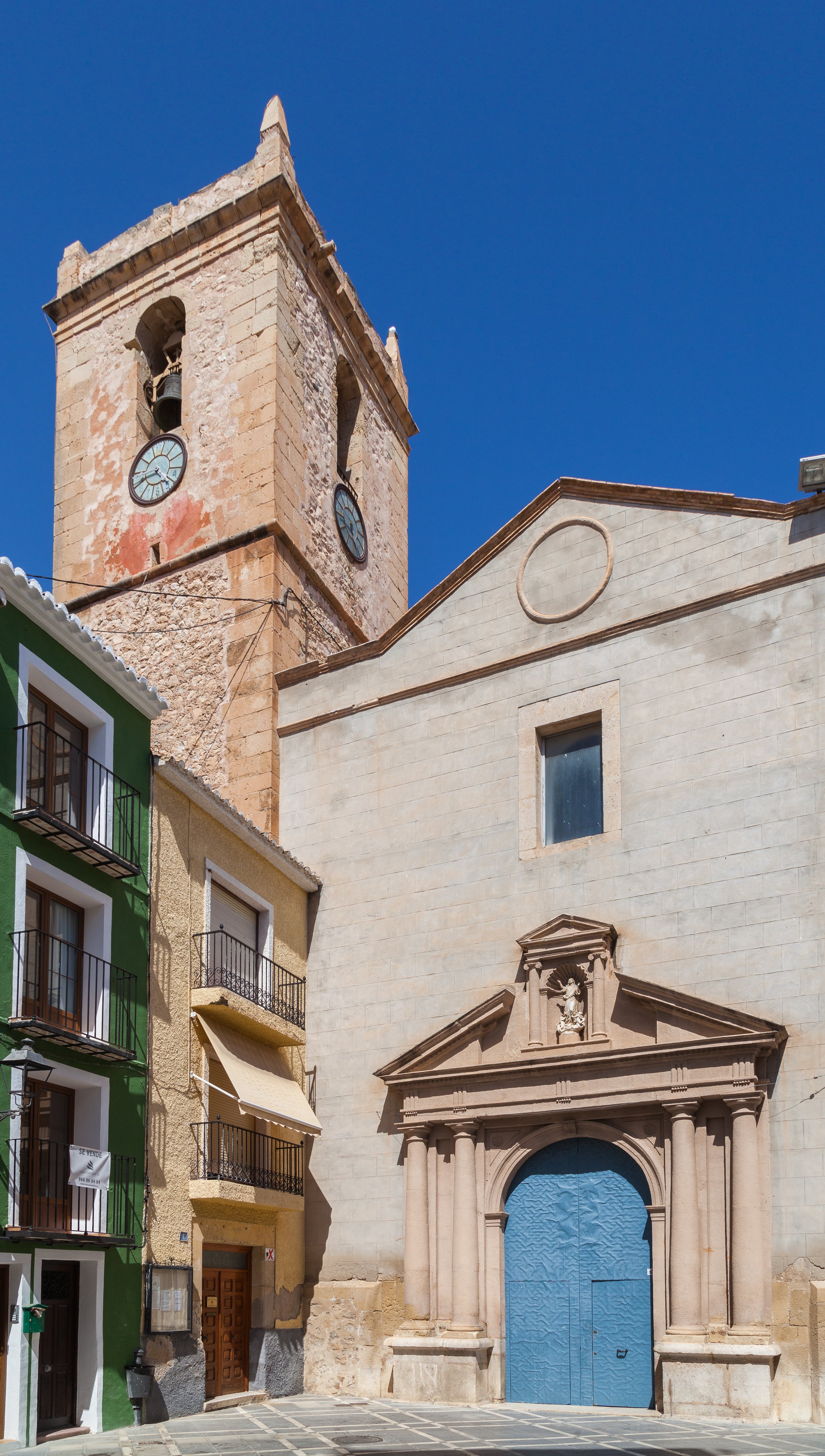 Fortified church of the Virgin of the Assumption, Villajoyosa, Spain